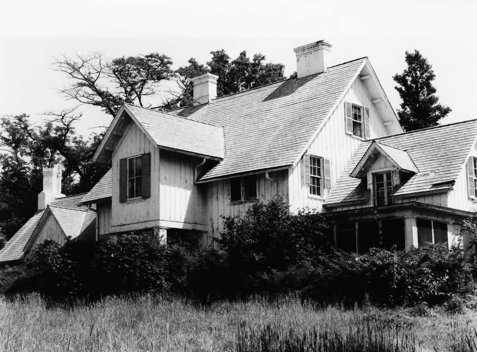 Robert Kennicott House, Glenview (Cook County, Illinois) cropped This image or media file contains material based on a work of a National Park Service employee, created as part of that person's official duties. As a work of the U.S. federal government, such work is in the public domain in the United States. See the NPS website and NPS copyright policy for more information.